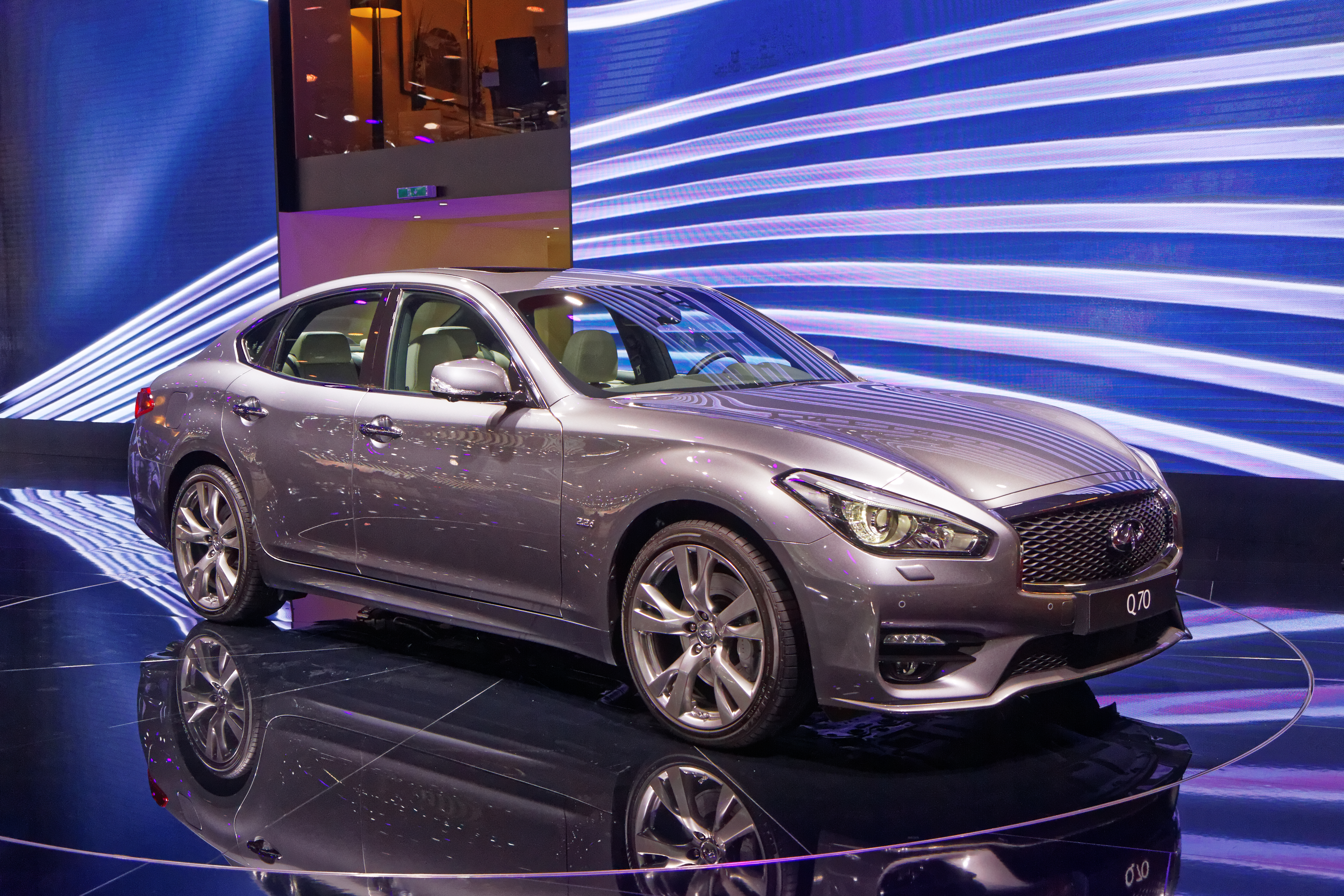 An Infiniti Q70 presented at the Paris Motor Show - Paris, 2014.